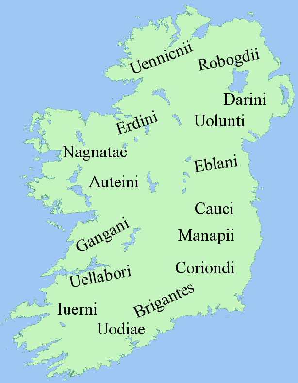 The peoples of ancient Ireland accordiing to Ptolemy's Geographia c.150AD